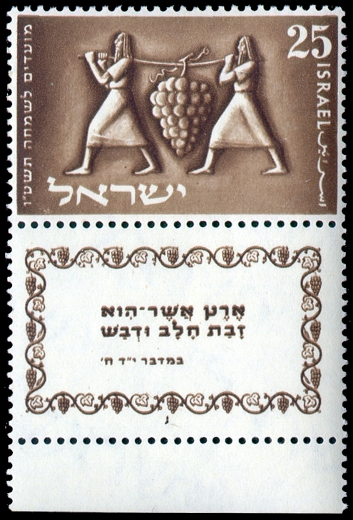 Joyous Festivals 5715 stamp - 25 mil. Inscription on tab: "...the land... it floweth with milk and honey..." Numbers XIV, 8.